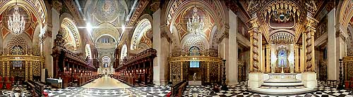 360° view near the High Altar at St Pauls Cathedral in London, courtesy Explore St Paul's Cathedral